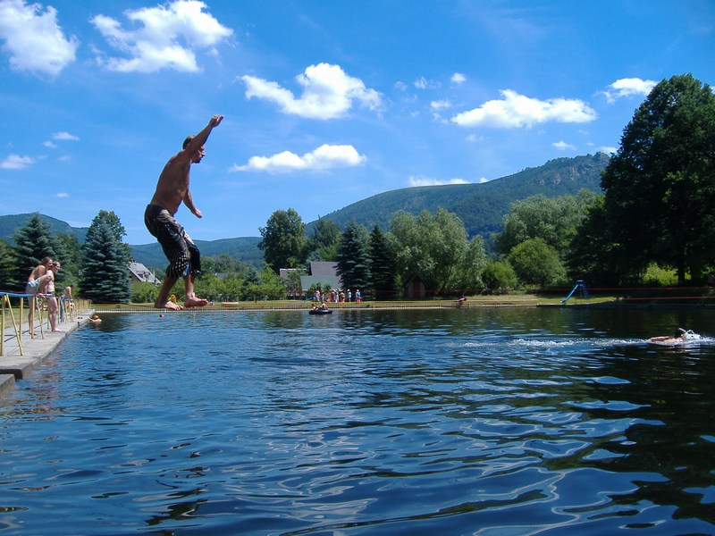 Slackline above water at the outside swimming pool in Hejnice, Czech Republic.